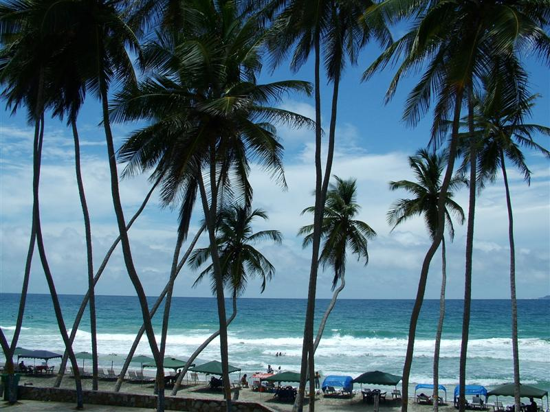 A view over the Ocean from Playa el Agua, Isla Margarita, Venezuela The photo was taken by me (User:Dennis this summer (2006). The URL where you can find it is this (my gallery)